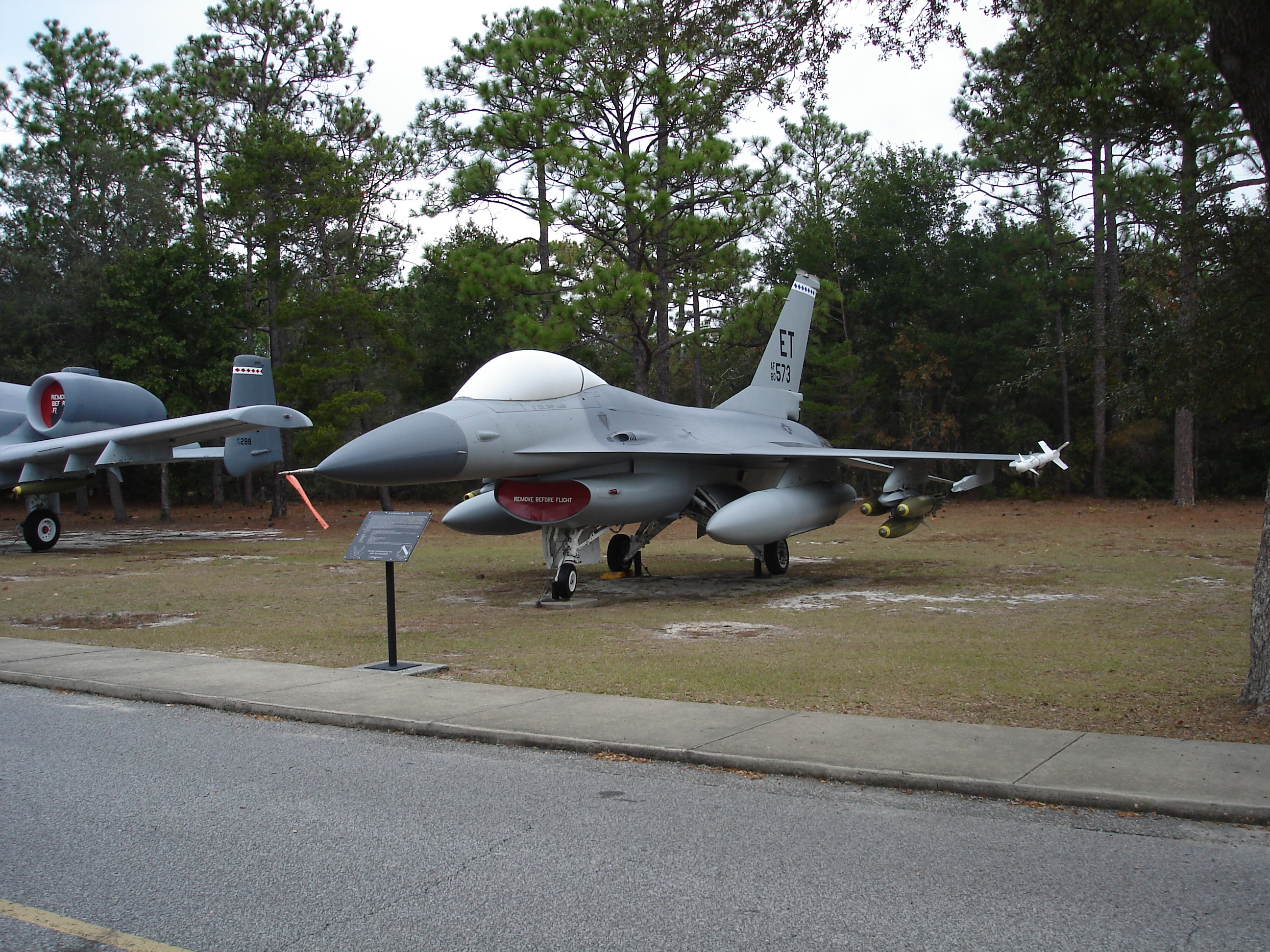 An F-16 with retarded Mk. 82s on a TER